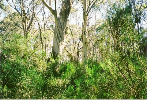 Snow Gums growing at Brumlow Tops summit, 1586 metres above sea level